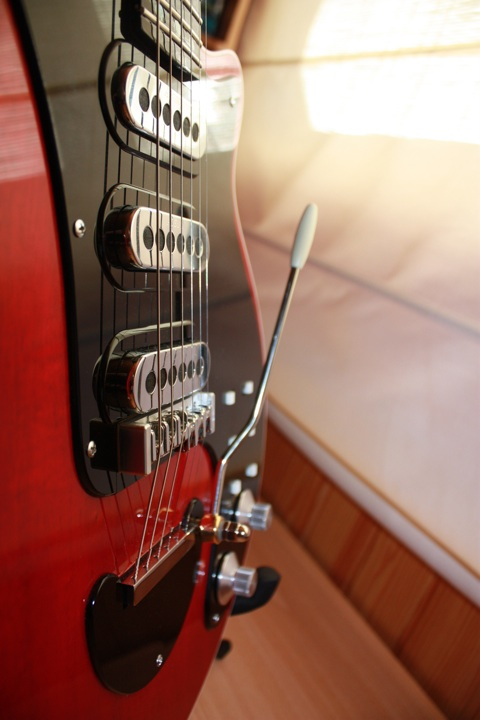 Bosy of a Red Special style guitar